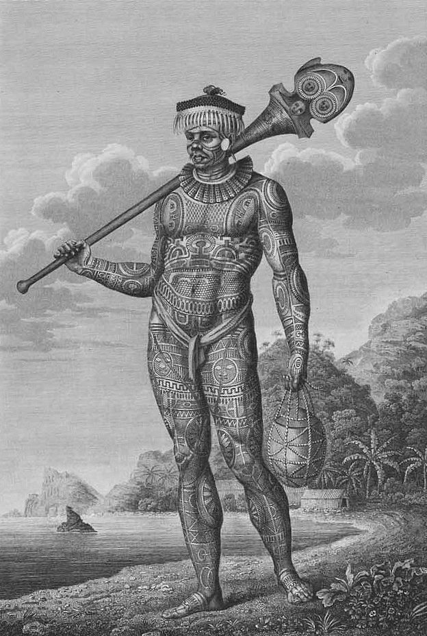 Plate of a tattooed male from Nukuhiva (Marquesas Islands).???.